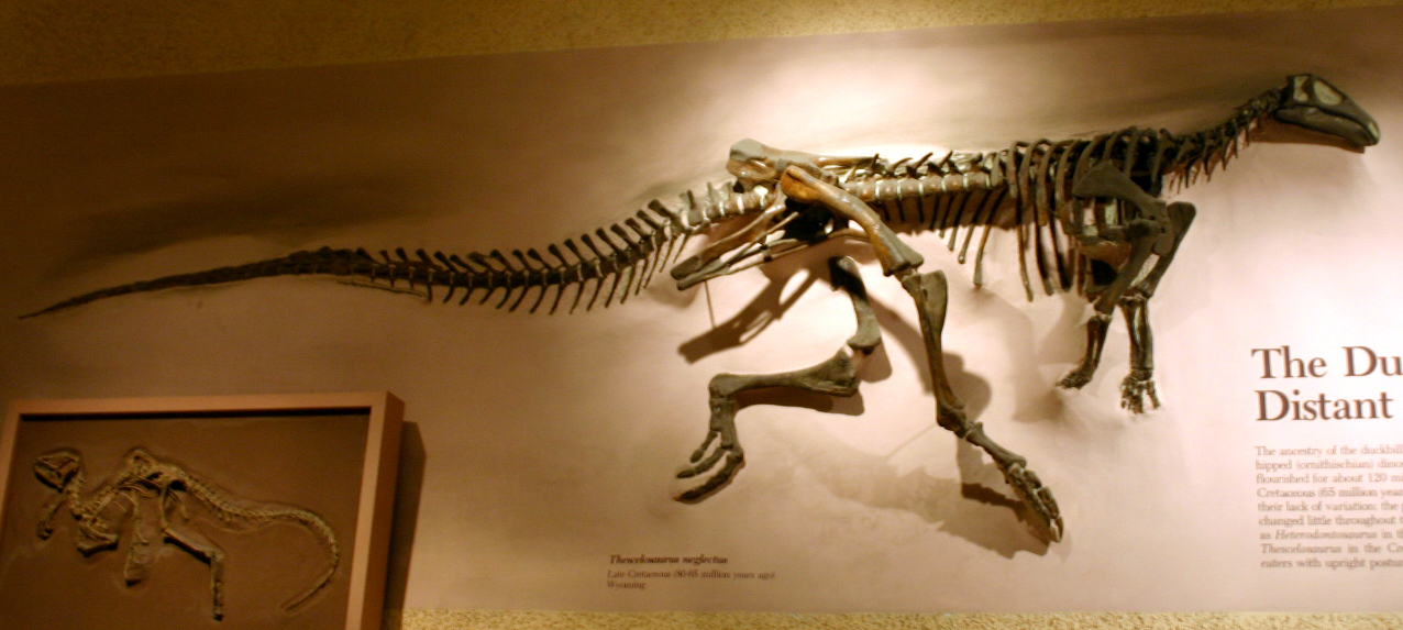 Thescelosaurus neglectus exhibited in Smithsonian National Museum of Natural History: Hall of Fossils. Holotype skeleton with skull and neck restored after Camptosaurus